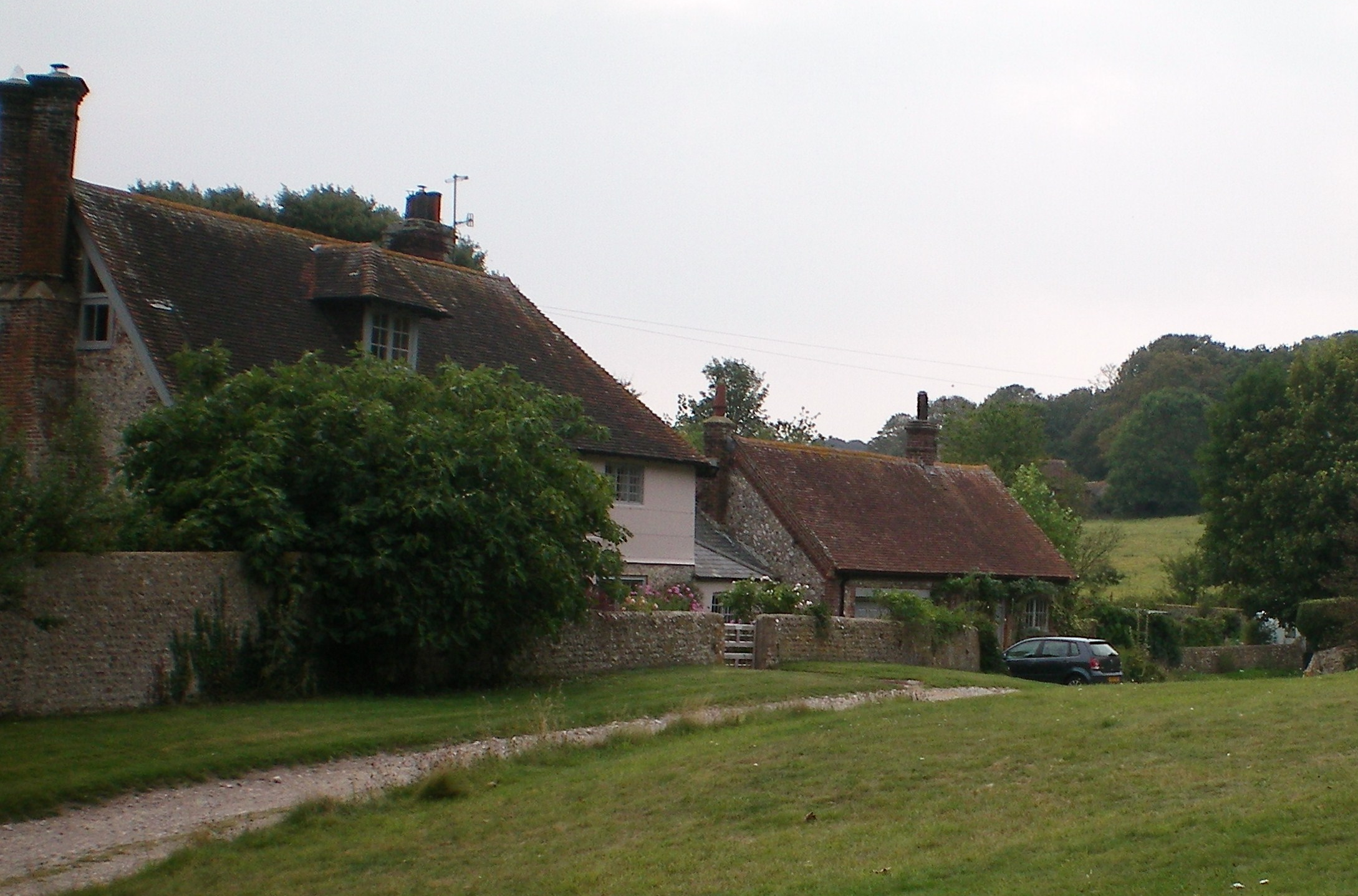 This is an image derived from cropped to show only Southease Place and Cottage